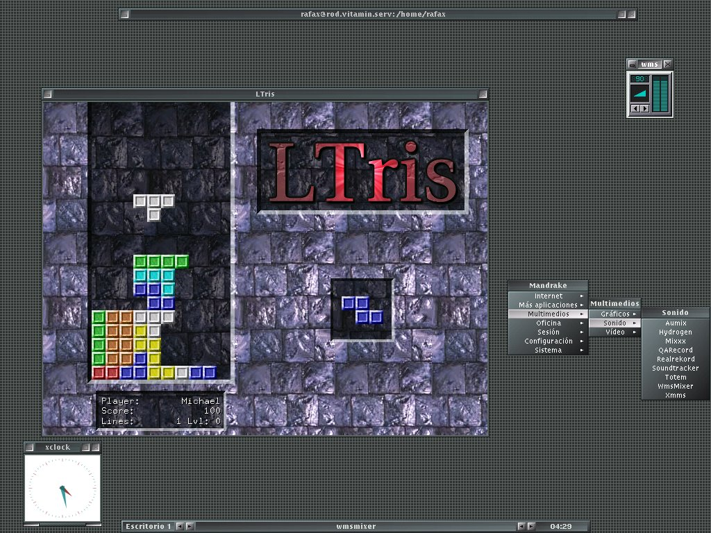 Screenshot of the Blackbox window manager running in Linux.